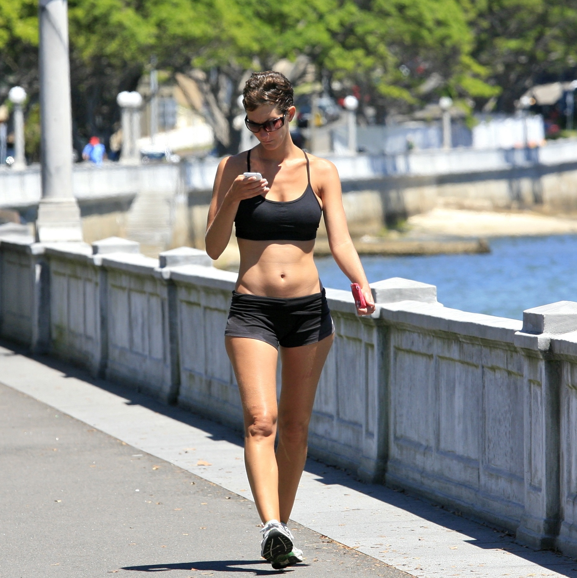 Keeping Fit and Connected